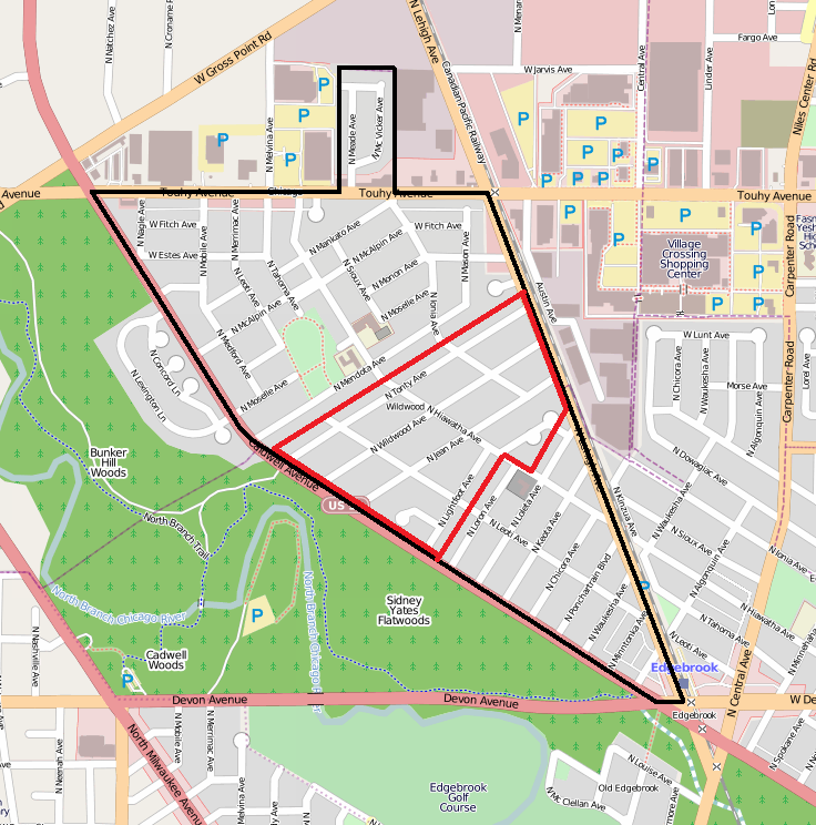 Wildwood, Chicago This map may be incomplete, and may contain errors. Don't rely solely on it for navigation.